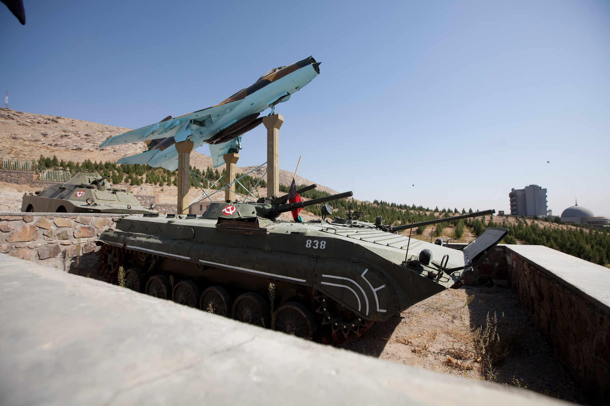 BMP-1, BRDM-2 and a Sukhoi military aircraft.